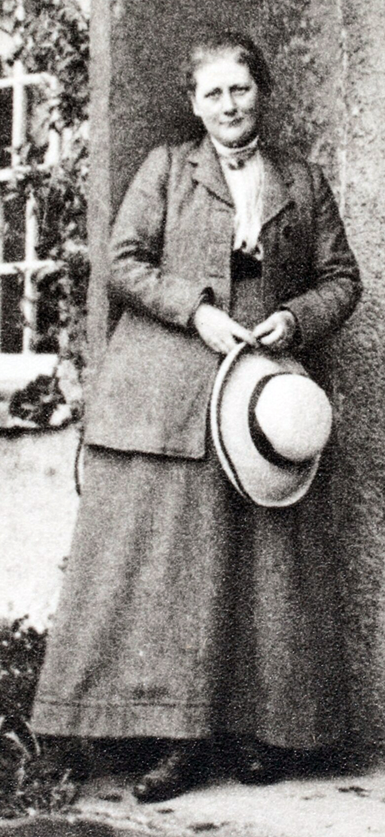 Vintage snapshot 112 mm x 87 mm